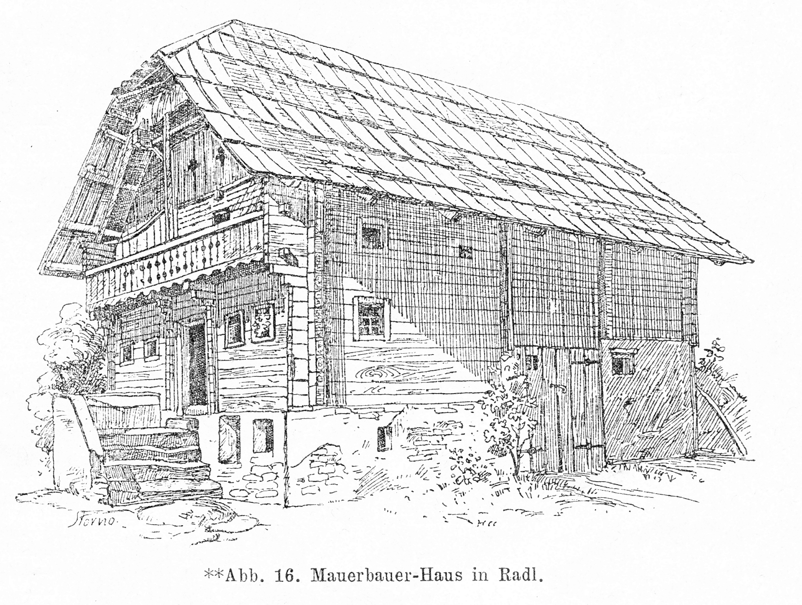 The Mauerbauer house in 1900, a small farm in Carinthia in Radl near lake Millstatt (Millstätter See) community of Seeboden / Spittal an der Drau / Carinthia / Austria / EU. This image comes from an article by J.R. Bünker in Sopron: The farm house at the lake of Millstatt in Carinthia. Vienna, 1902. Reprint from Volume XXXII [The third installment of Volume II] of the "communications of the Anthropological Society of Vienna", page 39 The picture was made 1900 by the academic painter Robert C. Lischka on a trip in the summer 1900th. Bünker chose the house as a study object because the entrance door at the front of the house was what occurred rarely. Pencil drawing by Franz Storno jun.